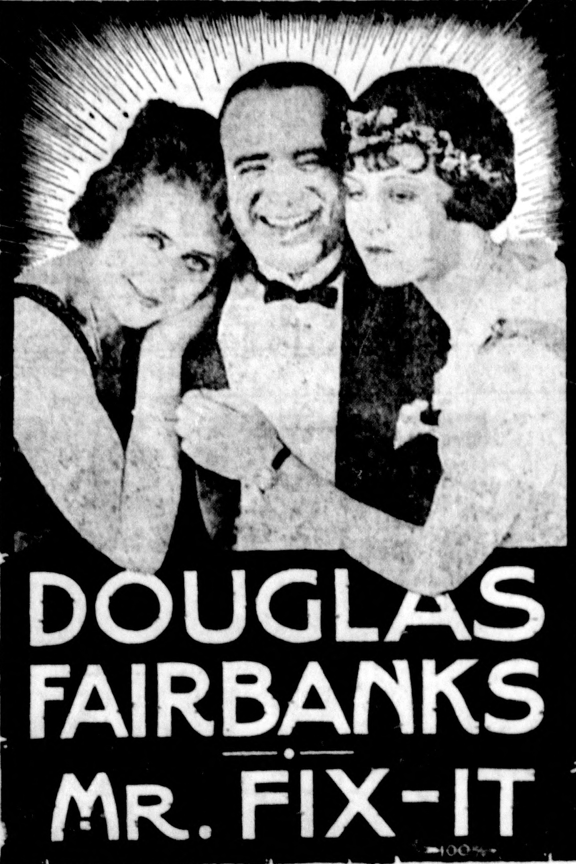 Mr. Fix-It (1918) is a silent film comedy starring Douglas Fairbanks, Marjorie Daw, and Wanda Hawley, directed by Allan Dwan at Artcraft Pictures, and released by Paramount Pictures. This is a newspaper advert for the film.